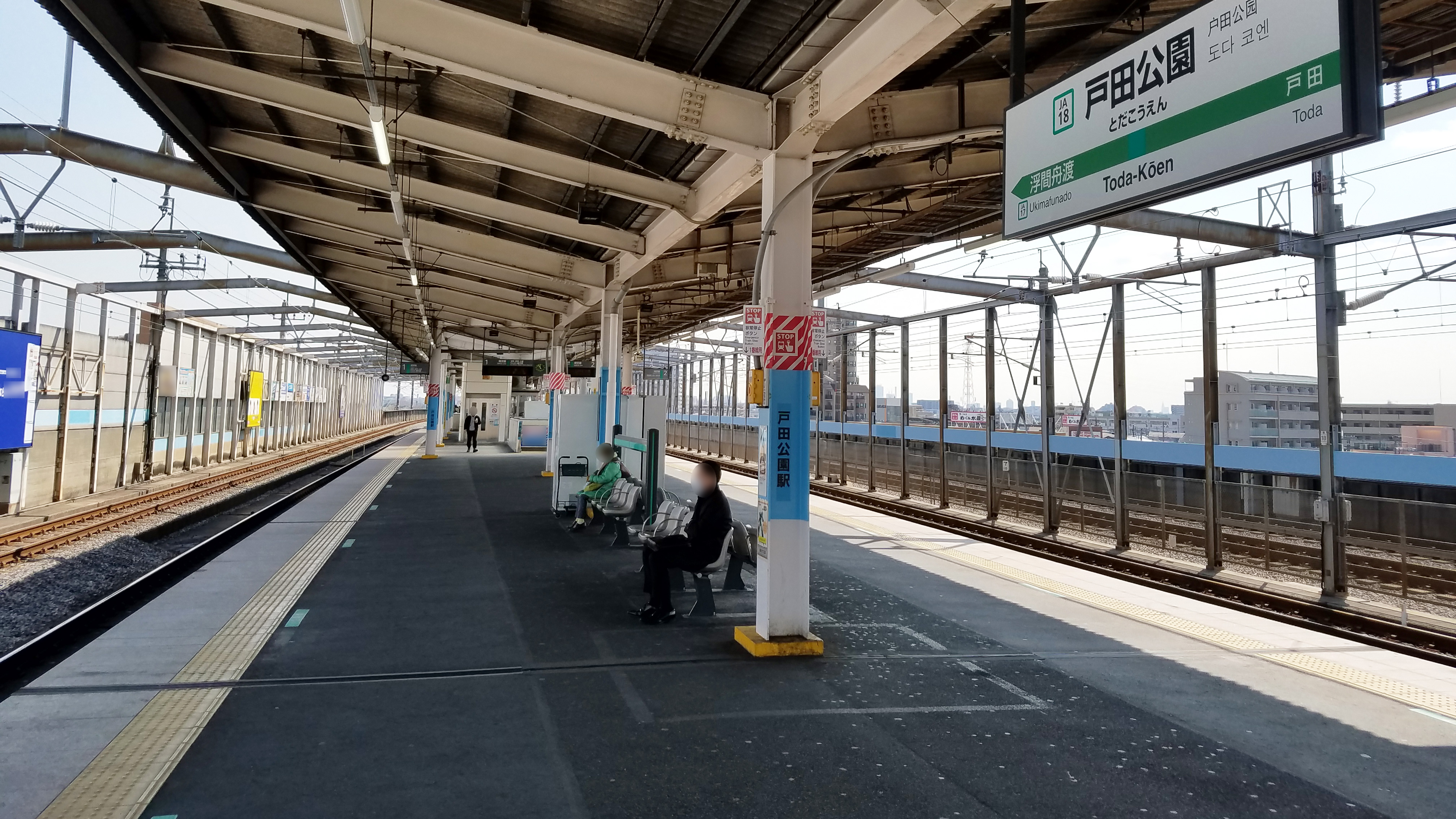 The platform at Toda-Kōen Station on the Saikyo Line in Toda city, Saitama prefecture, Japan